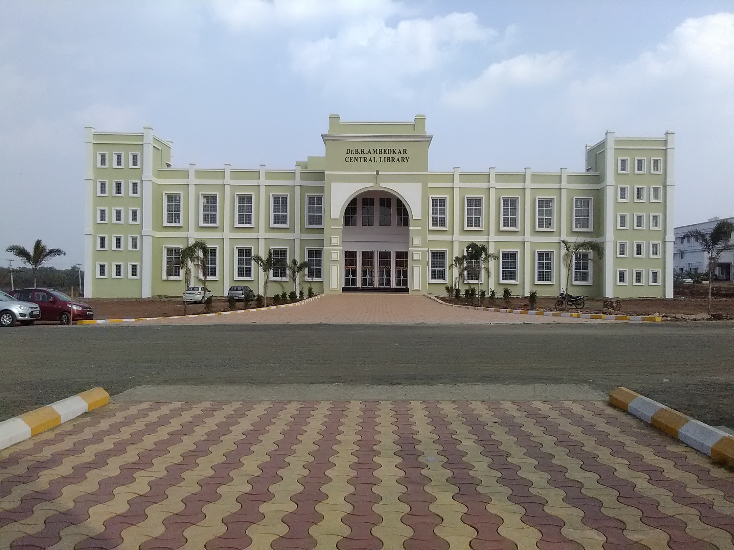 this is library of adikavi nannaya university